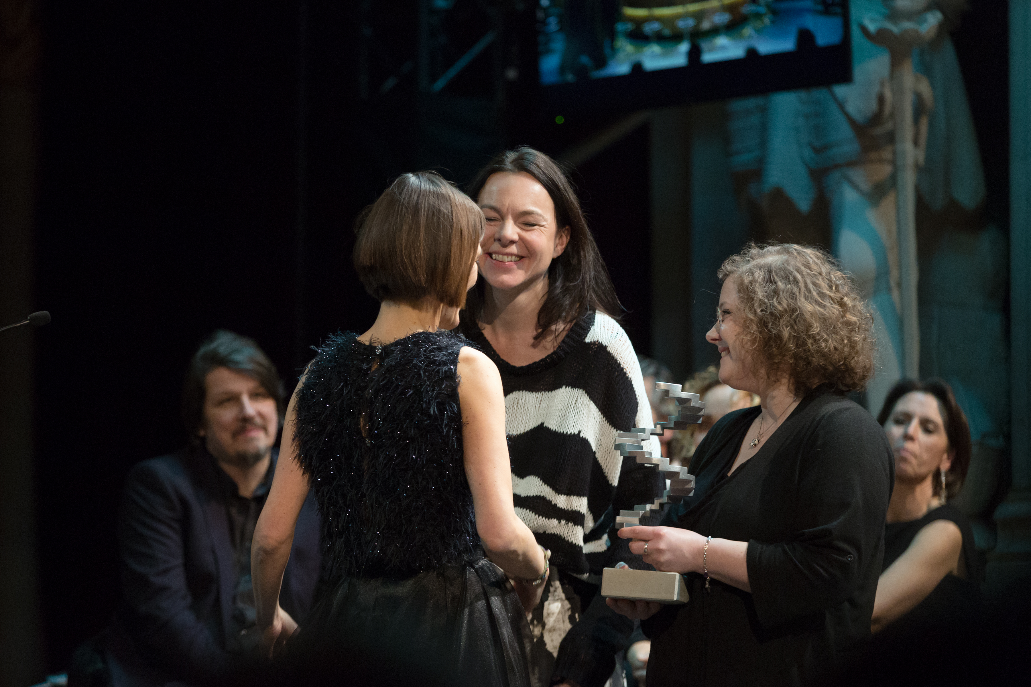 Pia Hierzegger, presenter of the Austrian Film Awards 2017, with Monika Willi and Claudia Linzer, winners for best film editing (Thank You for Bombing); Rathaus, Vienna, Austria.